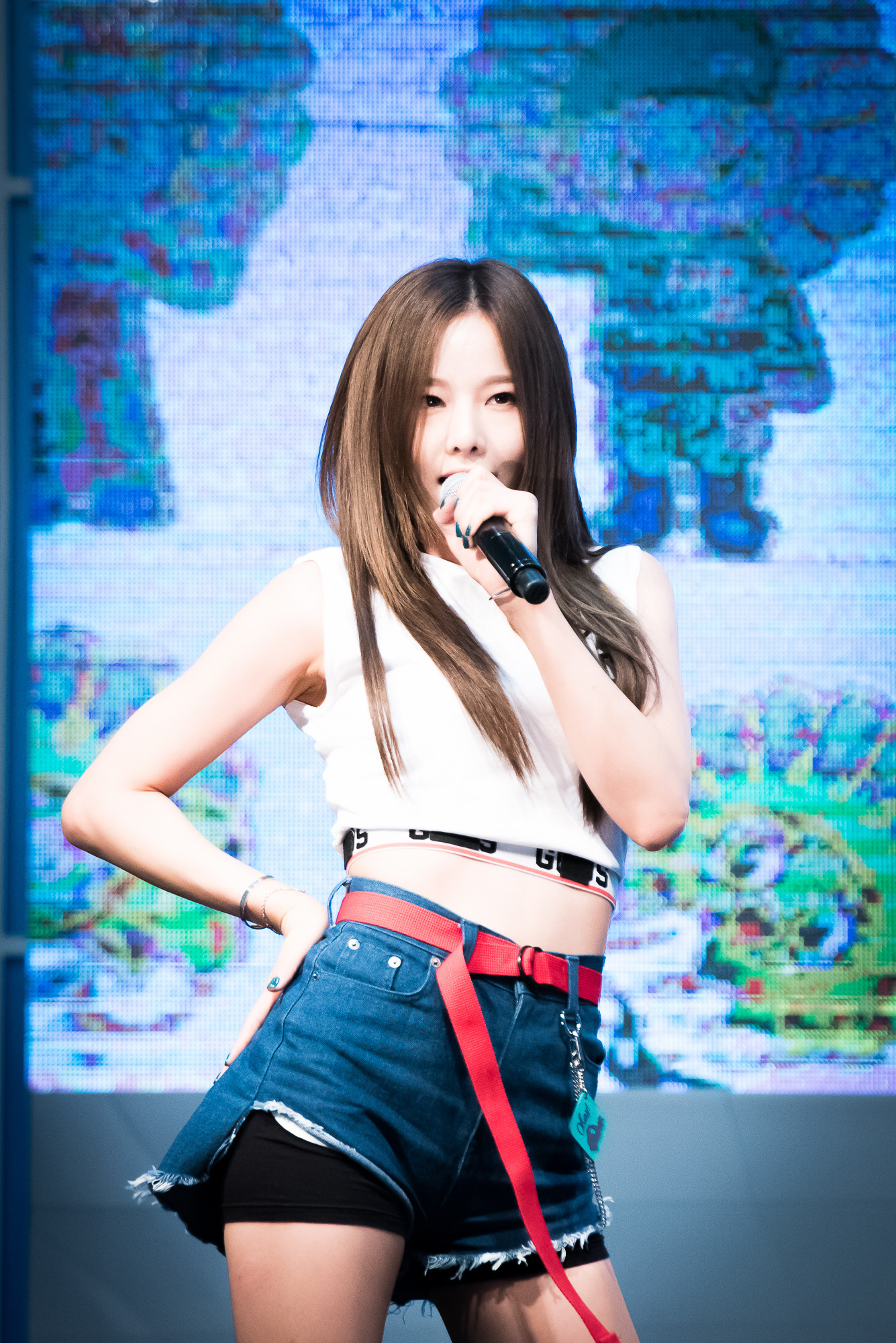 Heo Sol-ji performing at KBS Cool FM on July 14, 2016.